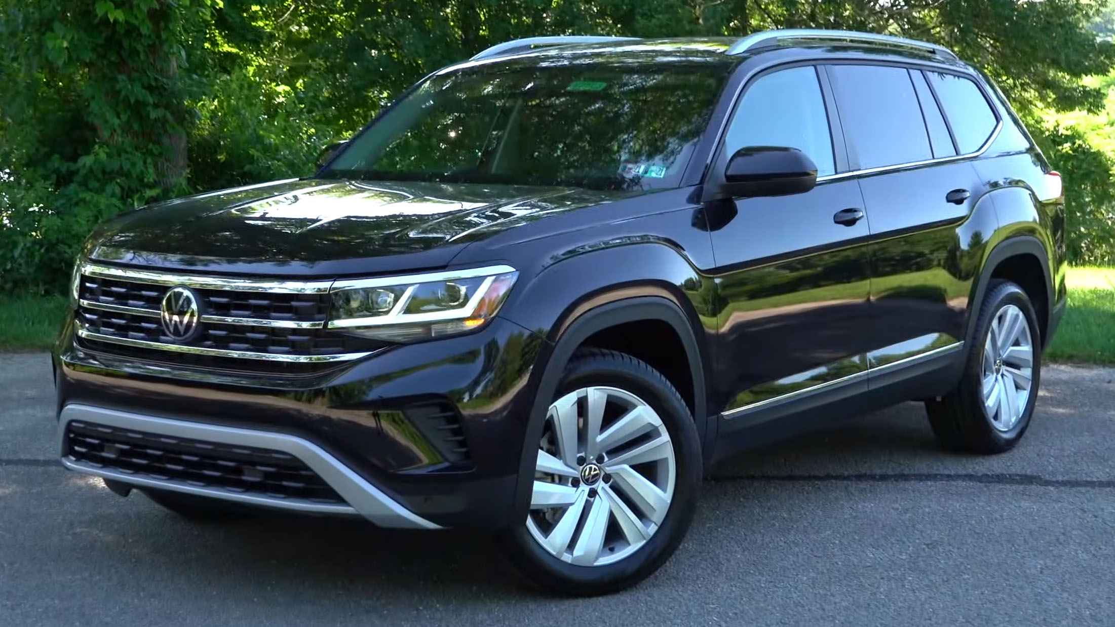 A 2021 Volkswagen Atlas